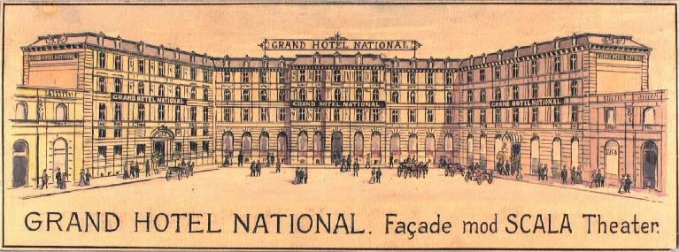 Imaginary view of Grand Hotel National seen from National Scala.